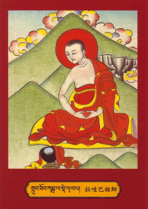 Kambala Pa, 9th Century Buddhist Mahasiddha